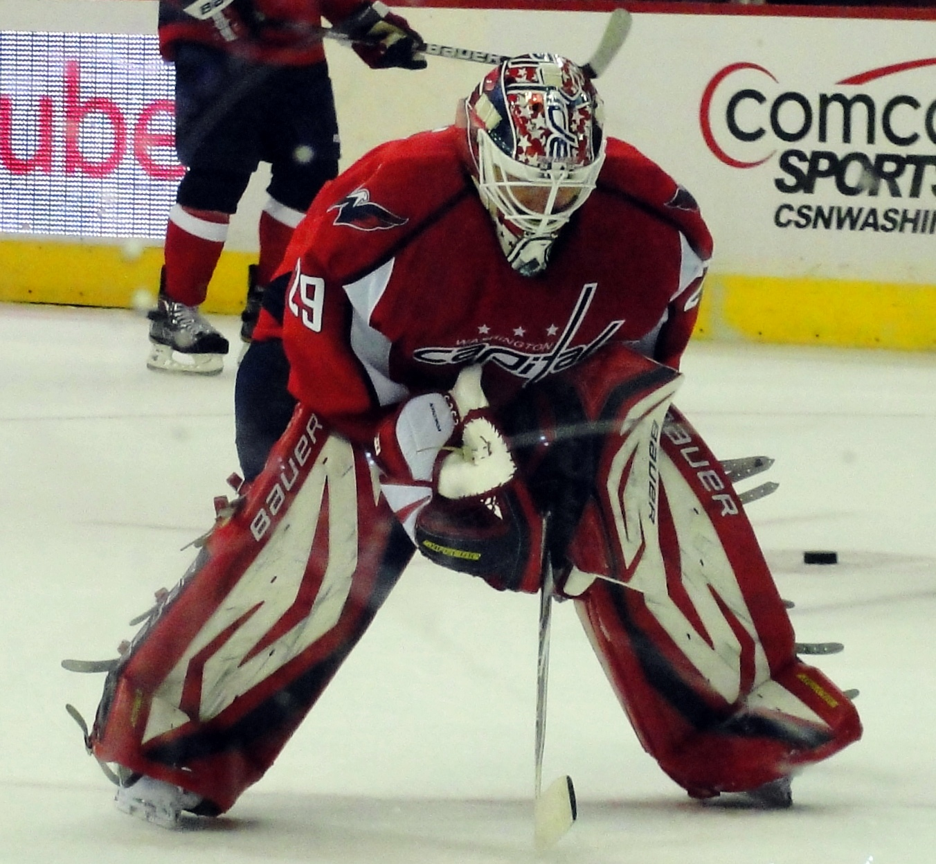 Tomáš Vokoun of the Washington Capitals skates toward his net in a January 11, 2012 game against the Pittsburgh Penguins at Verizon Center in Washington, D.C.